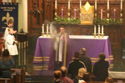 St Mary's Church, Greenville SC Advent Vespers